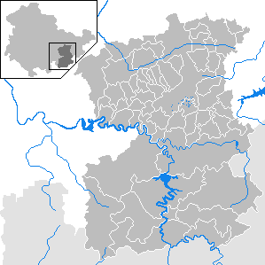 Municipalities in Saale-Orla-Kreis, Thuringia